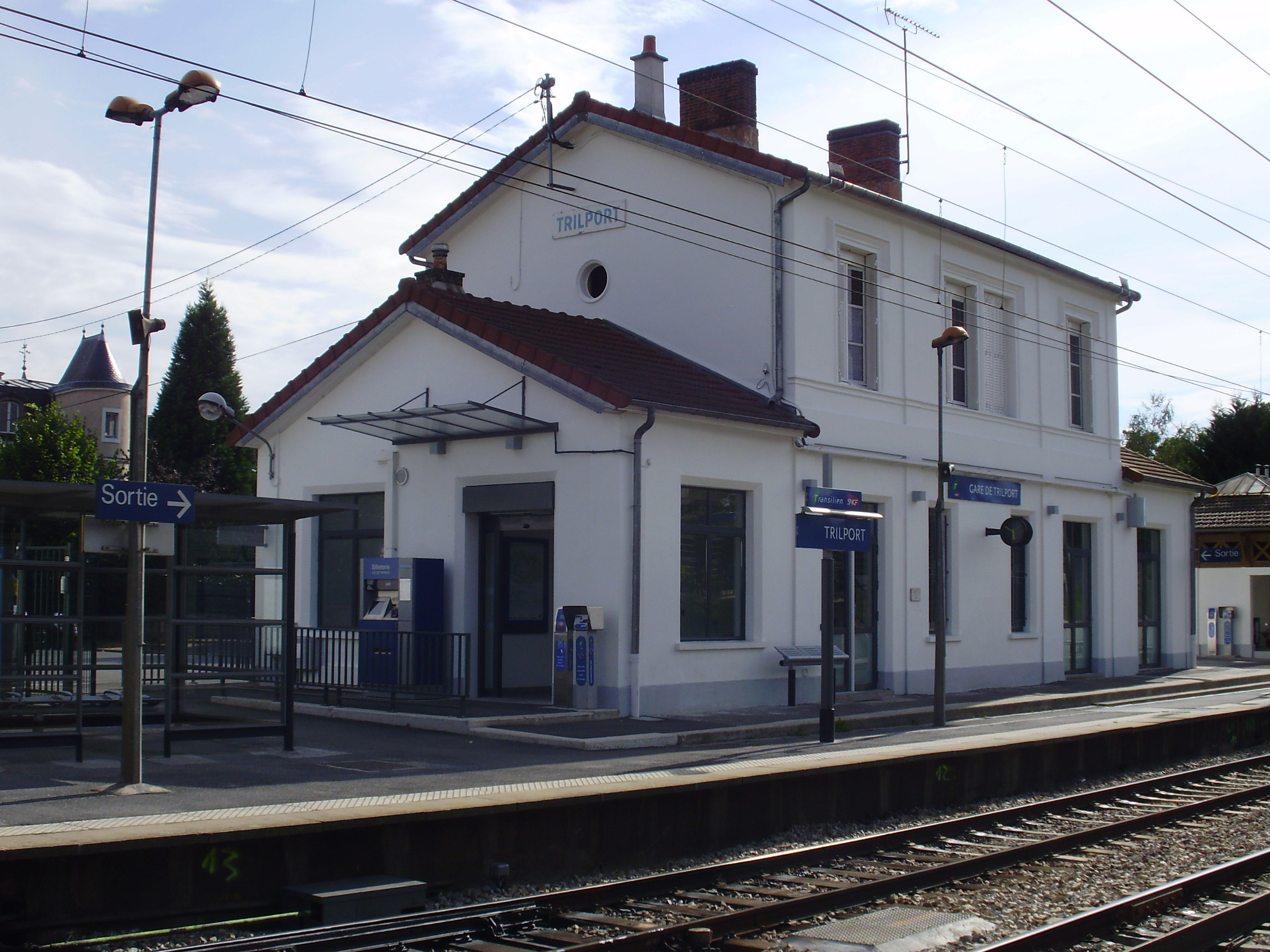 Trilport station, Seine-et-Marne, France, seen from the platform to Château-Thierry or La Ferté-Milon